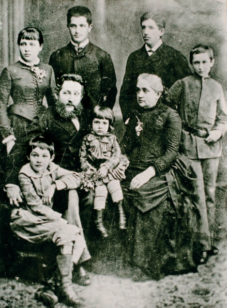 Family Alchevsky